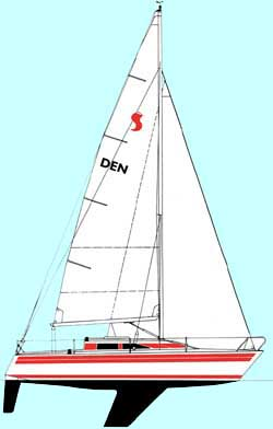 Stregtegning af bådtypen Banner-30